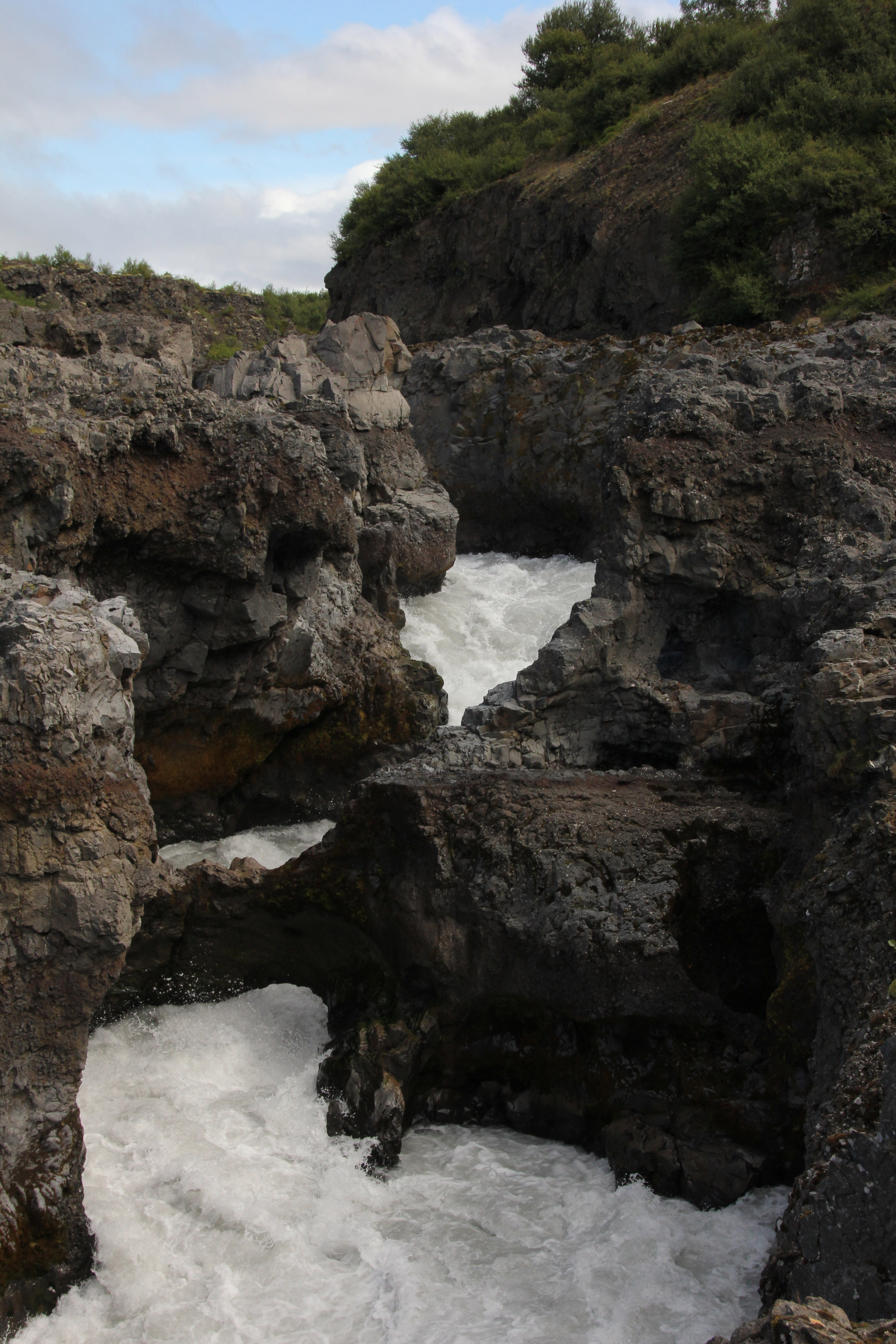 Barnafoss